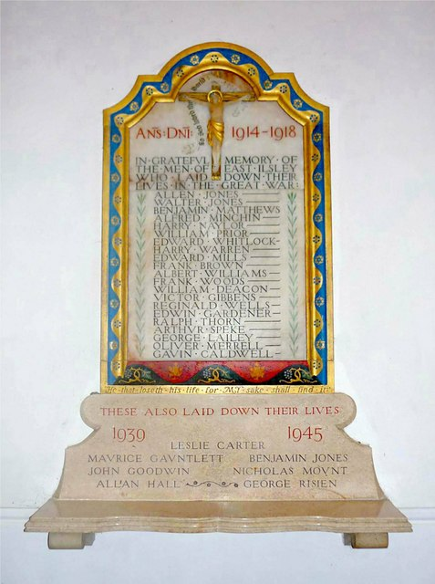 East Ilsley War Memorial The memorial is inside St Mary's Church, on the wall of the south aisle. It was restored in 2008 with help from the War Memorials Trust.